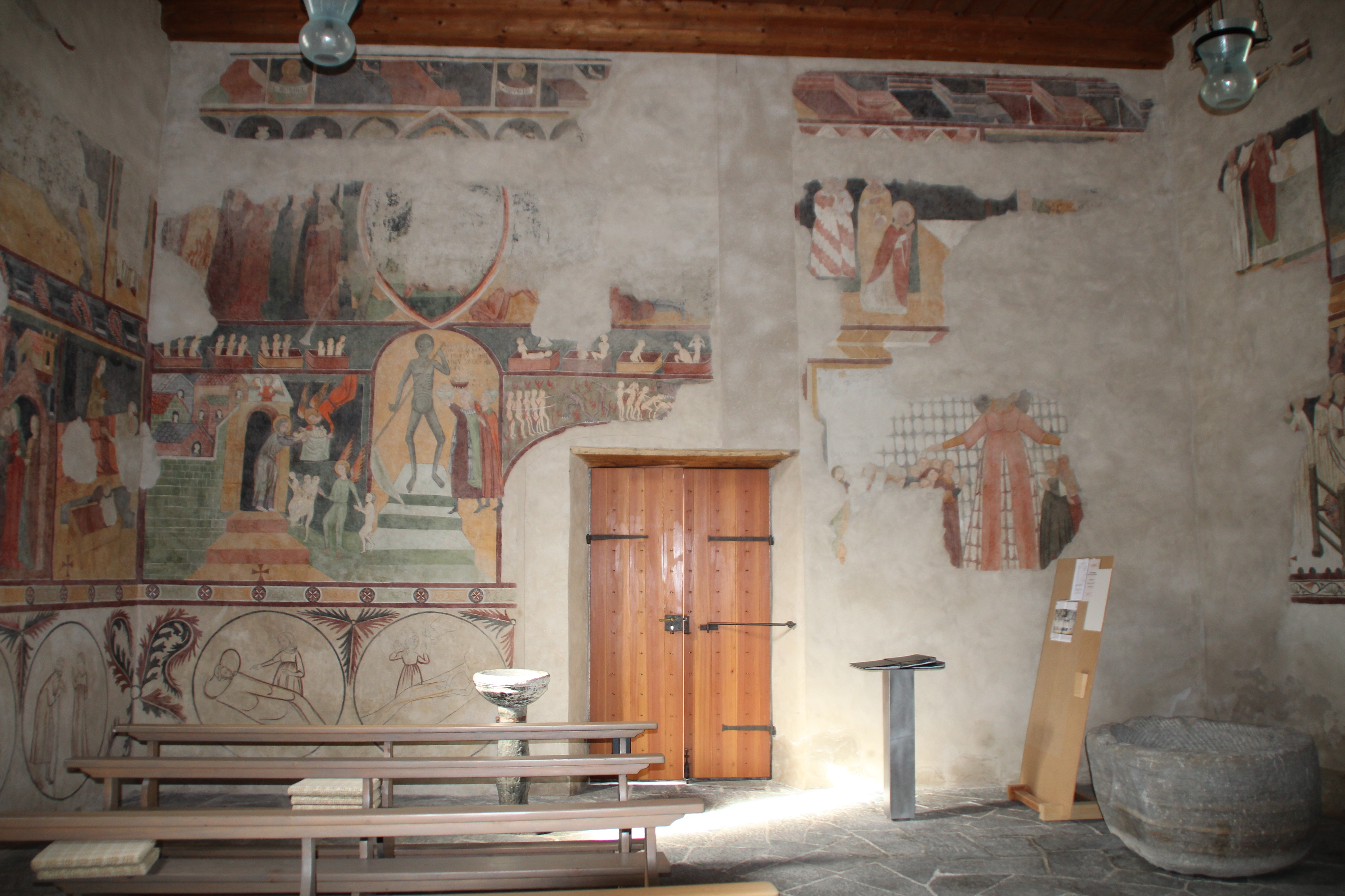 Chironico: Kirche S. Ambrogio